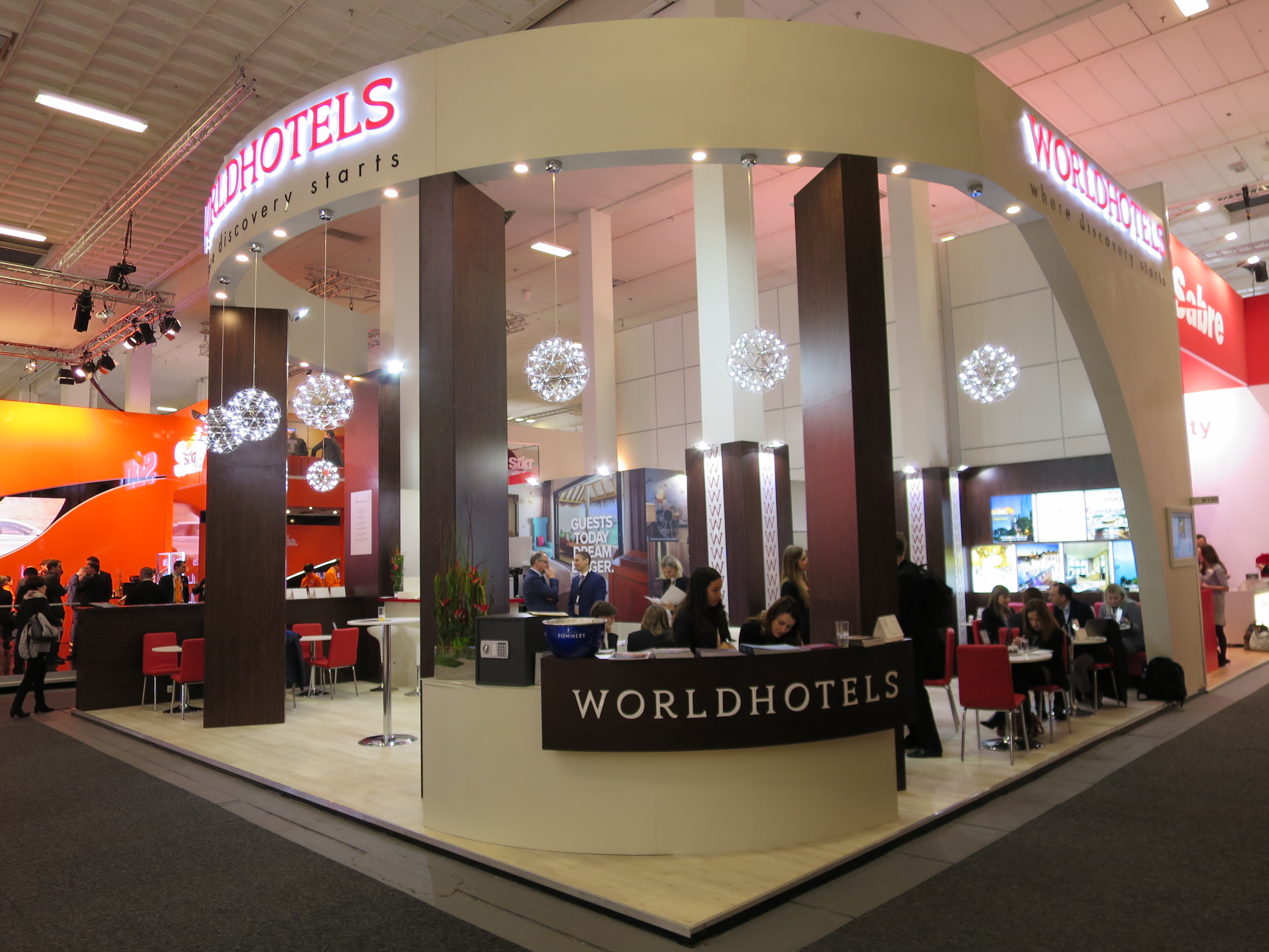 WorldHotels.